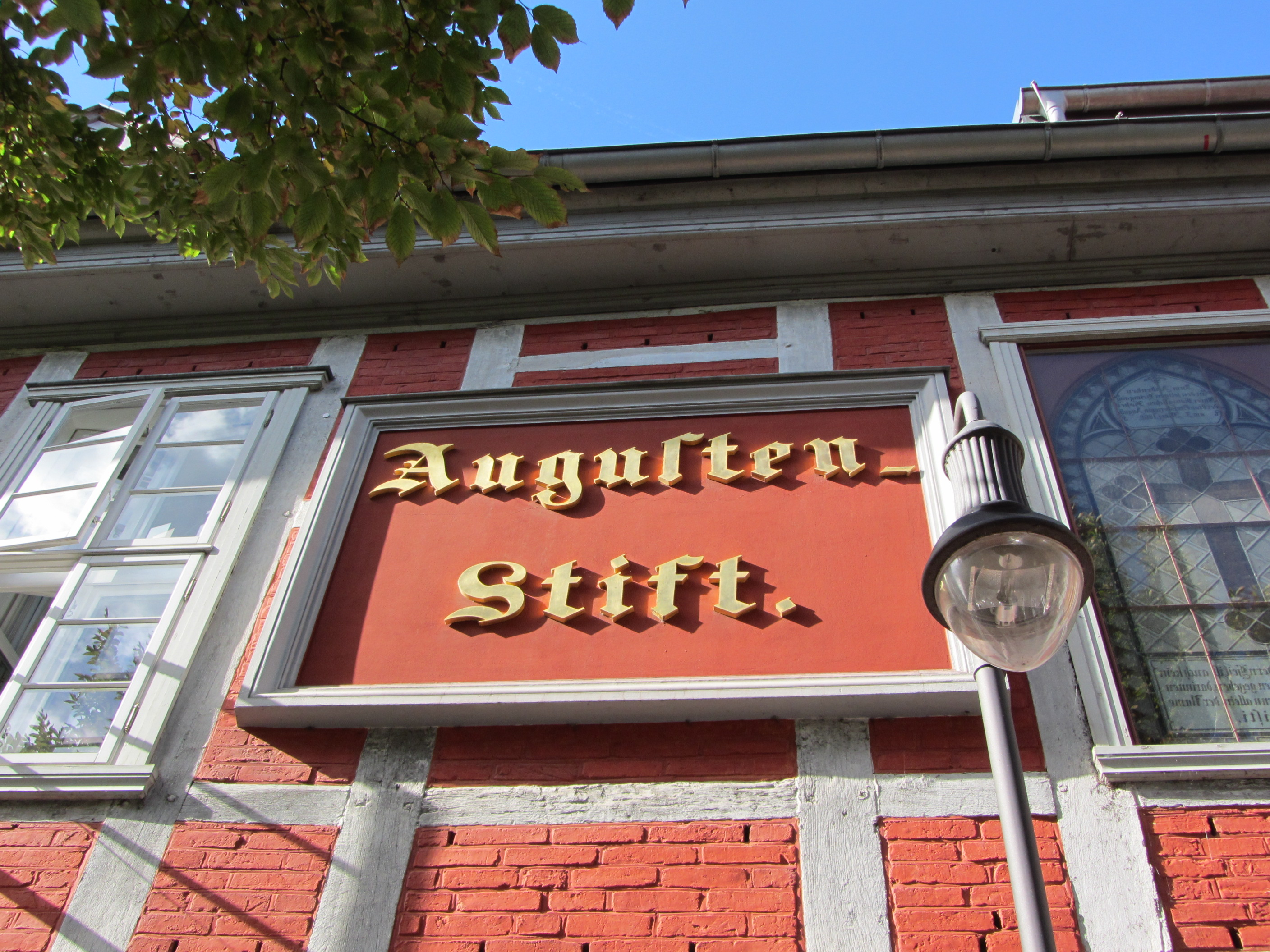 Augustenstift in Schwerin, Mecklenburg-Vorpommern, Germany